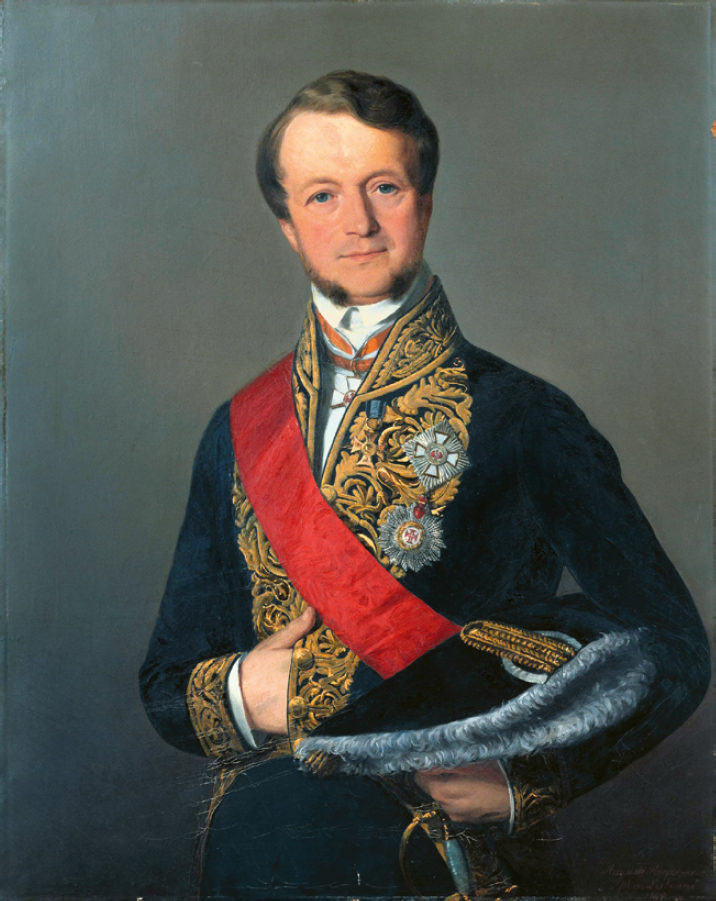 Portrait of Count Athanasius Raczynski, 1845, by Auguste Roquemont. In the collection of the Soares dos Reis National Museum, Porto, Portugal.